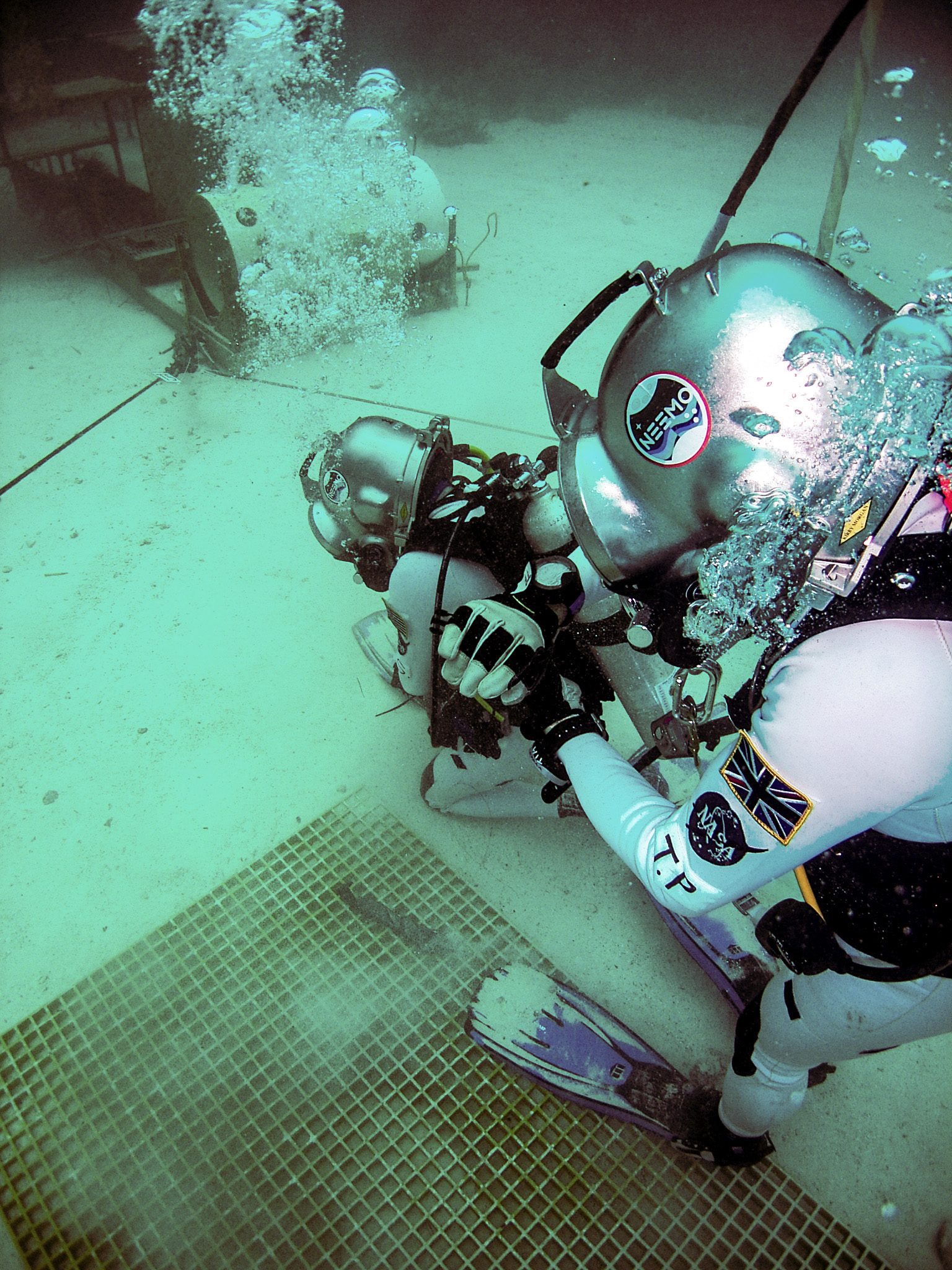 European Space Agency astronaut and NEEMO 16 aquanaut Timothy Peake during training week for the NEEMO 16 underwater exploration mission. NEEMO 16 is being conducted from June 11-22, 2012, at the Aquarius Reef Base underwater laboratory off Key Largo, Florida. NASA photo in public domain.